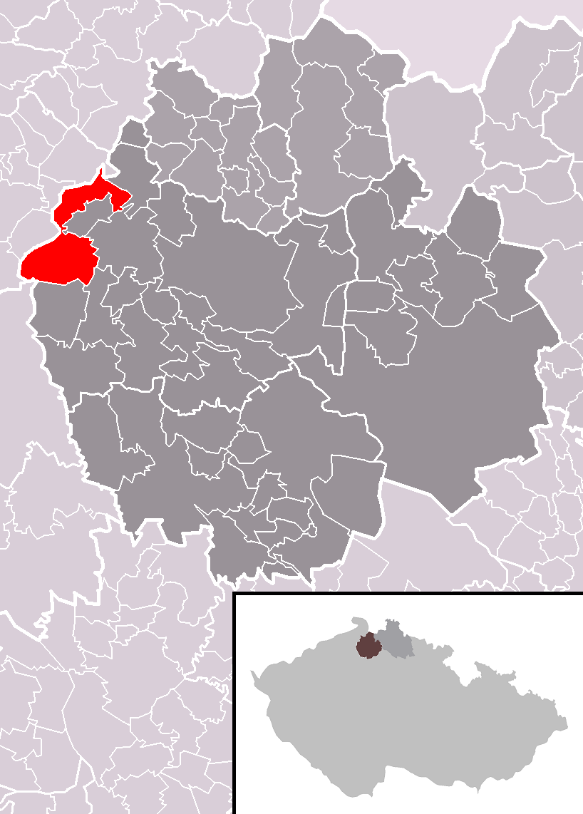 Location of Žandov town within Česká Lípa District and administrative area of Česká Lípa as a Municipality with Extended Competence.